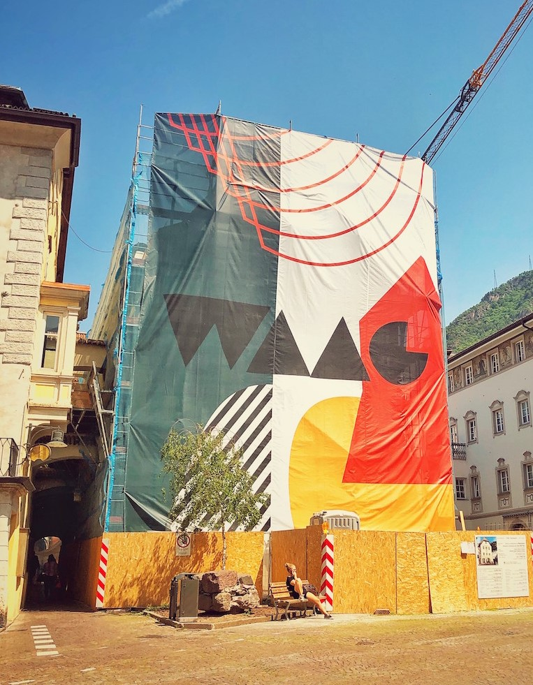 The Waaghaus in Bozen-Bolzano as wrapped with its new logo in 2019